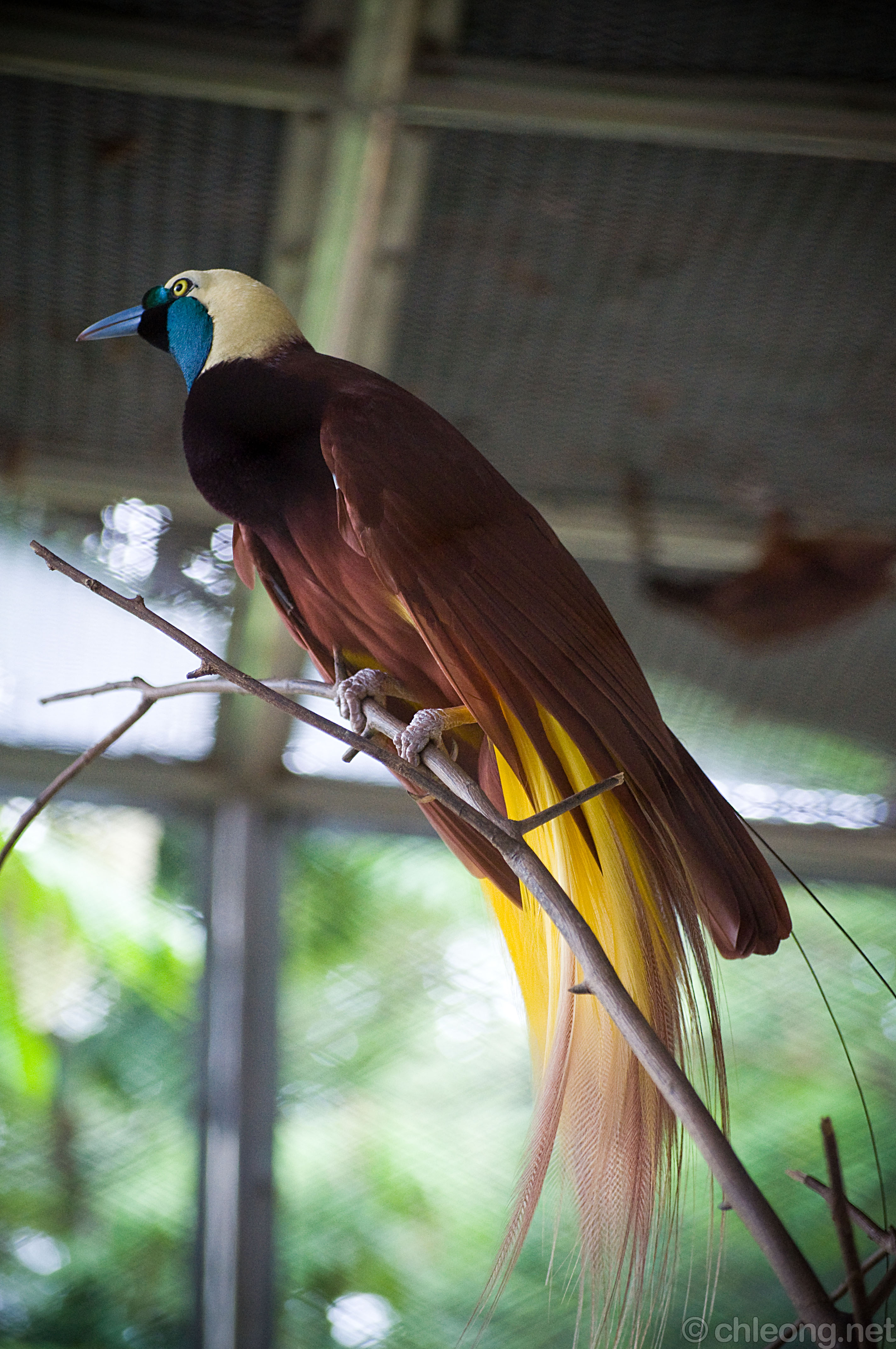 Greater Bird of Paradise; a male at Kuala Lumpur Bird Park, Malaysia.